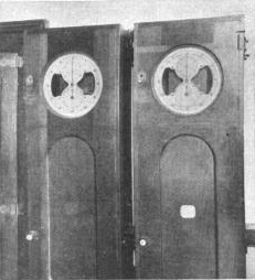 Precision pendulum regulator clocks at the United States Naval Observatory in 1905 which generated the time signal sent out at noon every day to all parts of the US by telegraph lines, serving as the primary time standard used to set accurate clocks throughout the US. These two clocks were synchronized to a third precision pendulum clock, the "star clock", which was set by the time of passage of stars overhead. From the source: One of the most important functions of the Naval Observatory is found in the daily distribution of the correct time to every portion of the United States. This is effected by means of telegraphic signals, which are sent out from Washington at noon daily, except Sundays. The original object of this time service was to furnish mariners in the seaboard cities with the means of regulating their chronometers; but, like many another governmental activity, its scope has gradually broadened until it has become of general usefulness. The electrical impulse which goes forth from the Observatory at noon each day, now sets or regulates automatically more than 70,000 clocks located in all parts of the United States, and also serves, in each of the larger cities of the country, to release a time-ball located on some lofty building of central location. The dropping of the time-ball--accompanied, at some points, with the simultaneous firing of a cannon--is the signal for the regulation by hand of hundreds of other clocks and watches in the vicinity. The clocks which contain the mechanism for sending the time signal, cost upwards of $800 each. As a precaution against accident, two of these clocks are provided; but only one is used in sending the signal. At three and a-quarter minutes before noon, the signal clock is switched into the telegraph circuit which covers the entire country; and from that moment until the sending of the signal, all business is suspended throughout the 350,000 miles of telegraph lines over which it is to be flashed.